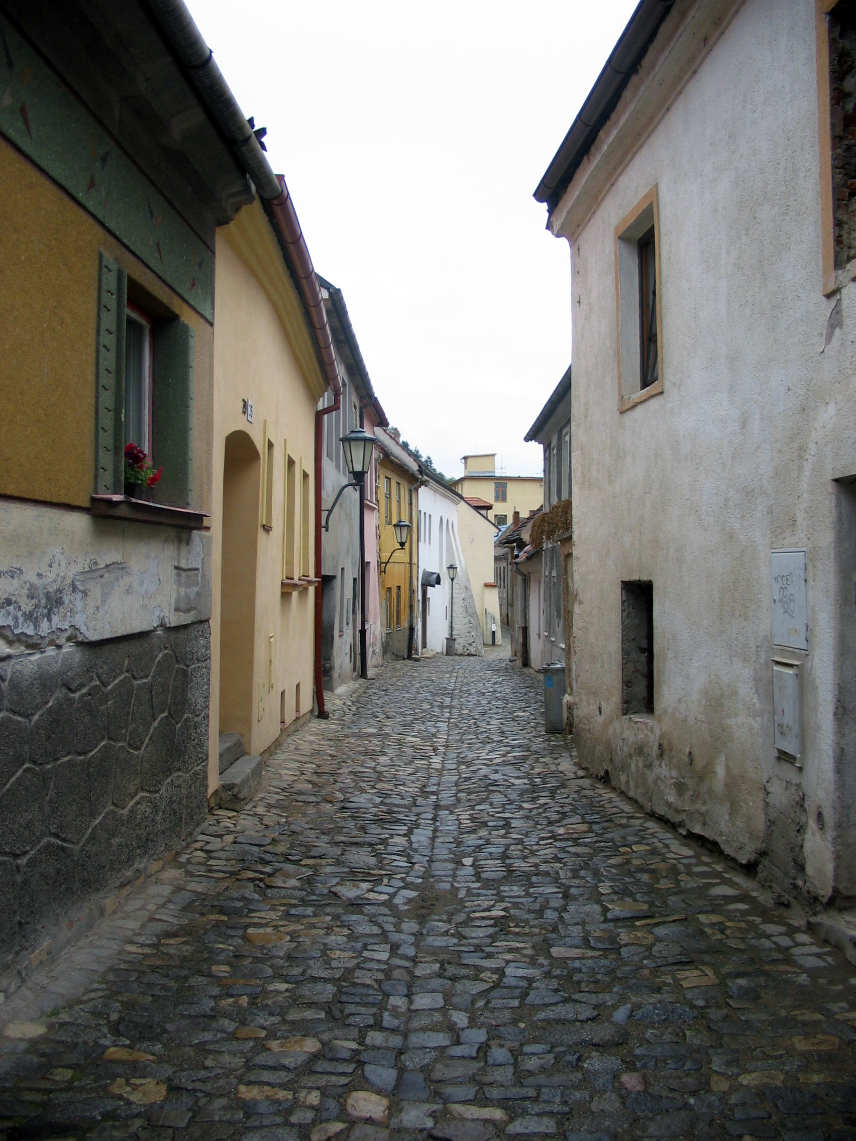 Jude town Třebíč.(Czech republic)